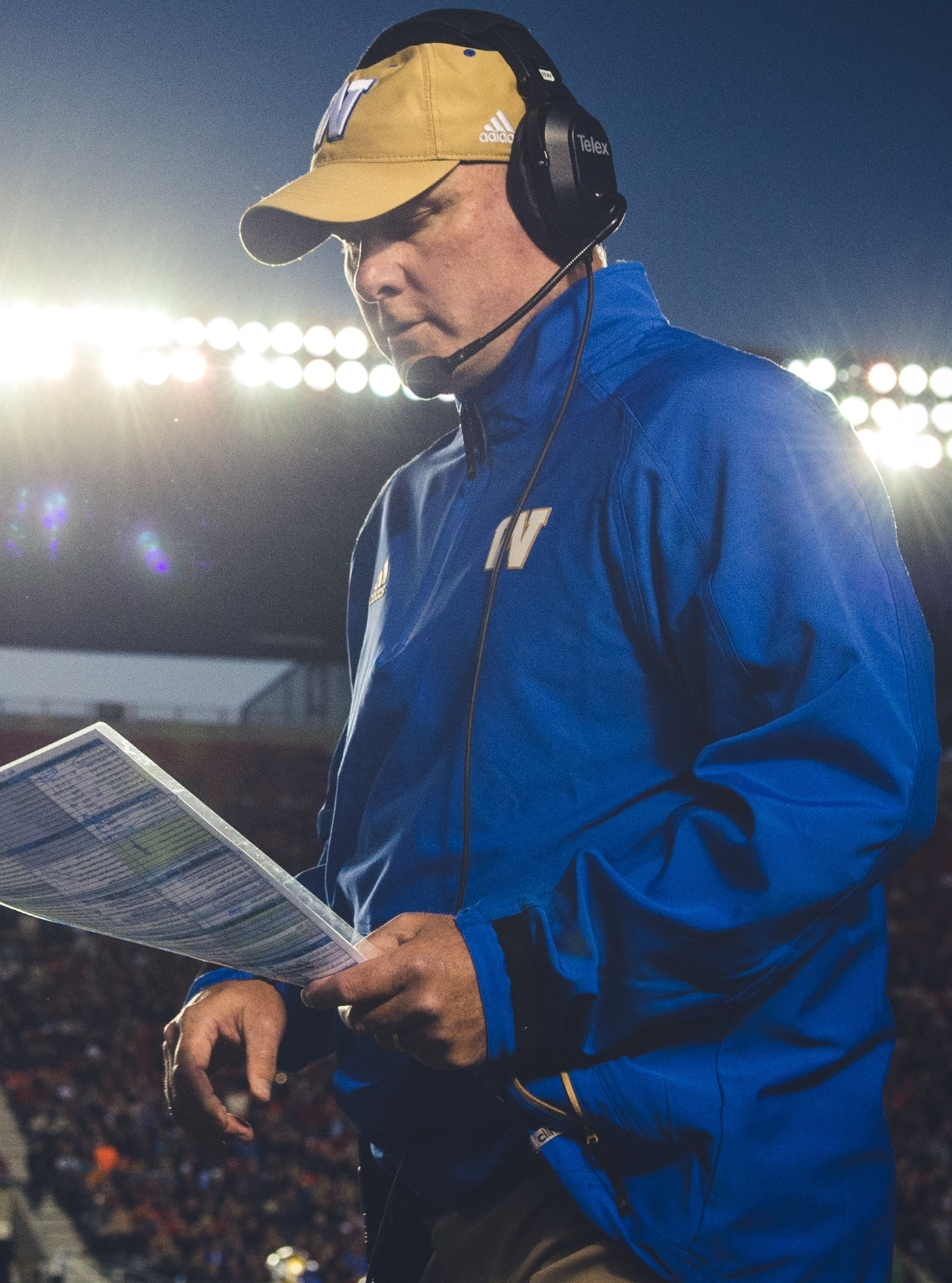 Winnipeg Blue Bombers offensive coordinator Paul LaPolice during the pre-season game at TD Place in Ottawa, ON on Monday June 13, 2016. (Photo: Johany Jutras)